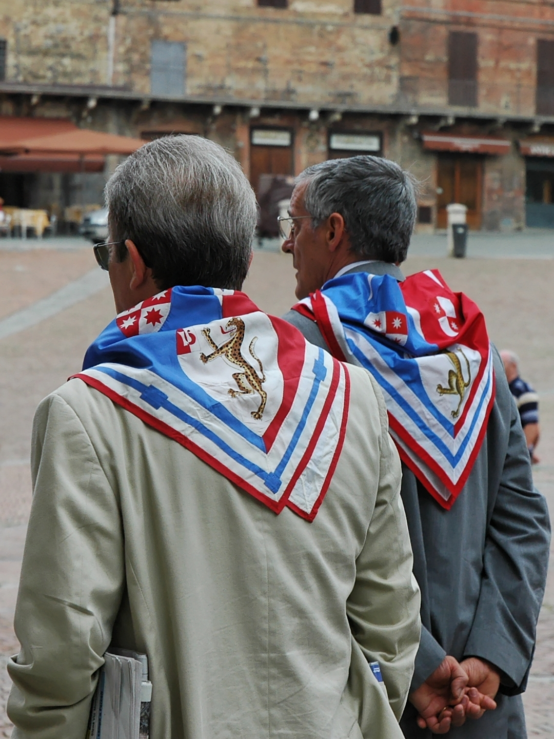 Inhabitants of Siena sporting scarves of the contrada della Pantera during a parade at the piazza del Campo.